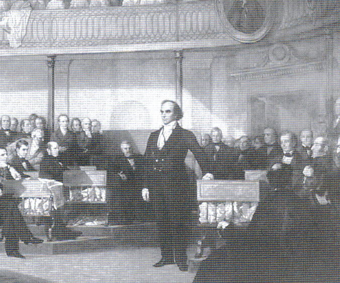 A scan from Robert Caro's Master of the Senate of George Healy's Webster's Reply to Hayne